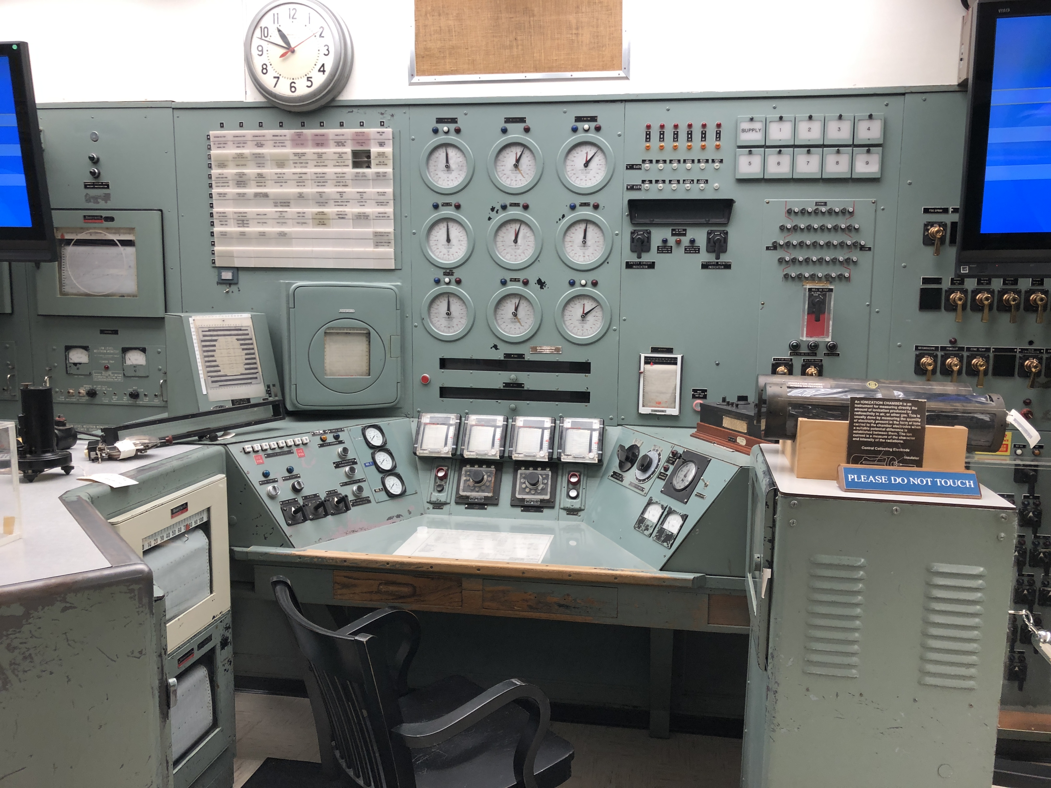 Control room of the B reactor. Taken on July 19th 2018.